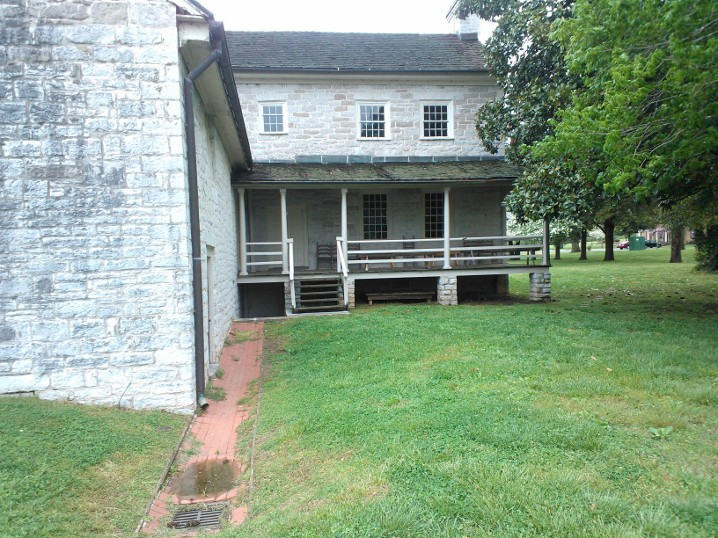 The back of Rock Castle in Hendersonville, TN, USA.